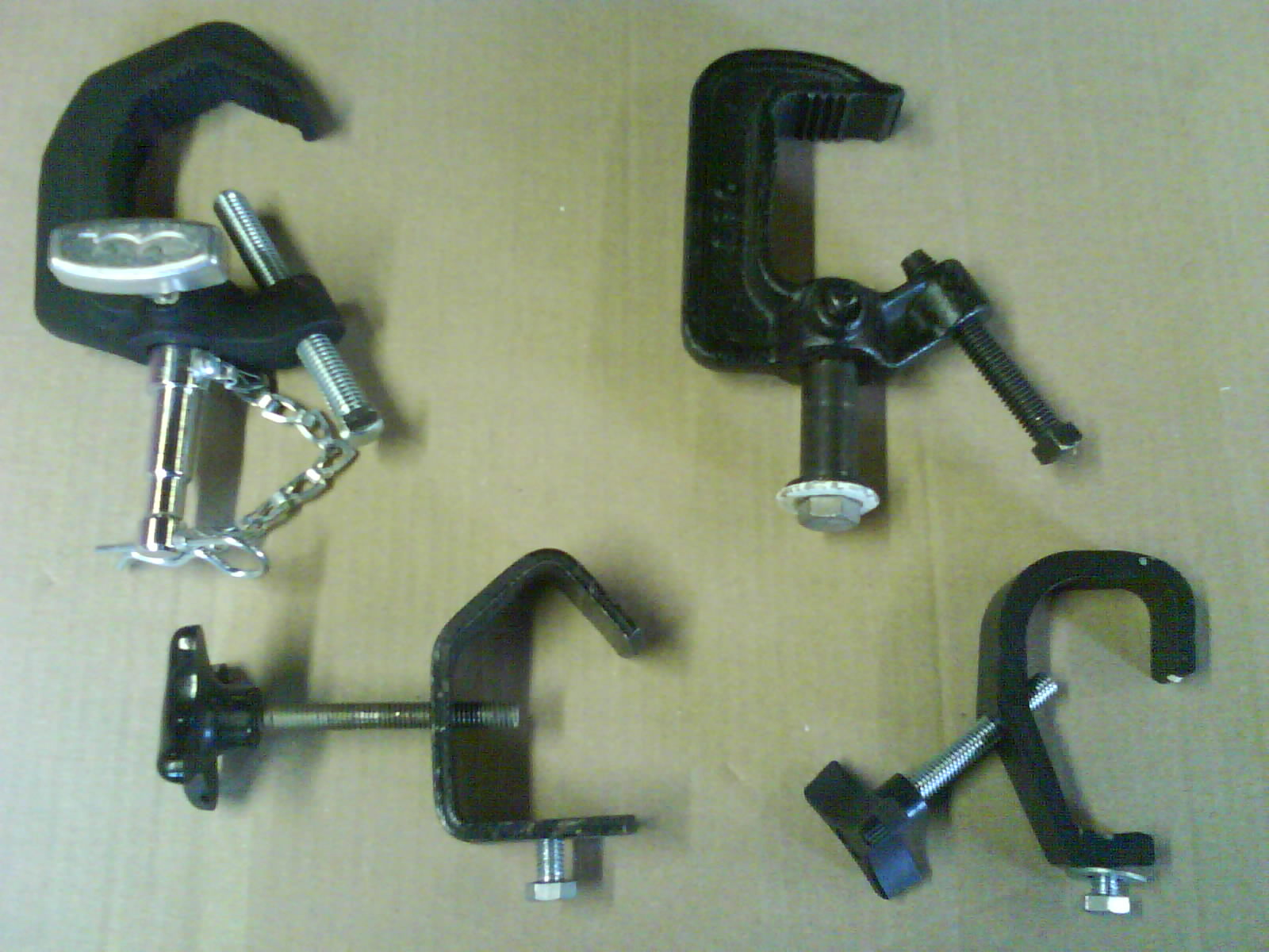 A selection of lighting clamps